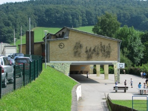 School in Wilhelmsfeld